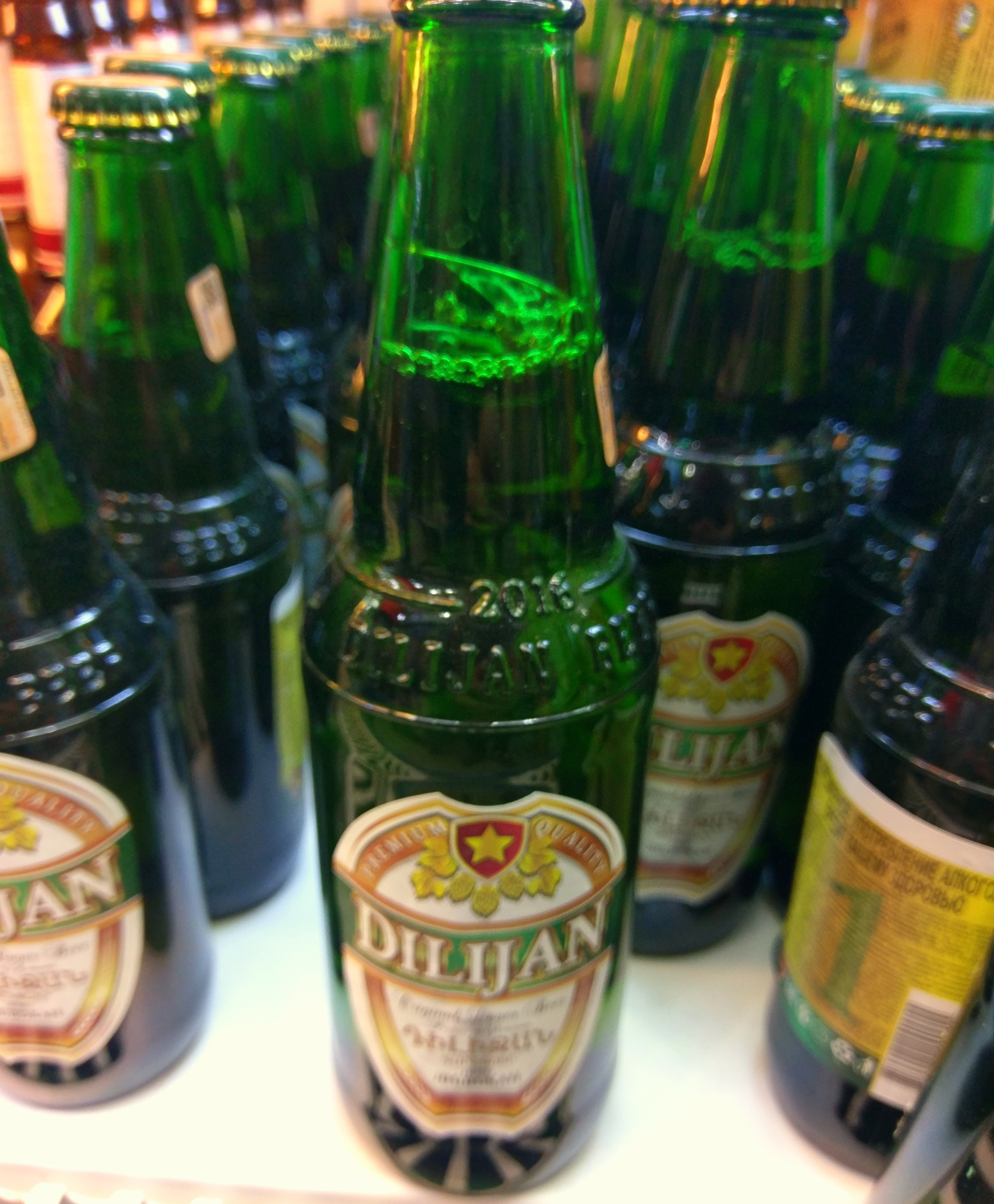 Dilijan Beer from Dilijan, Tavush Province, Armenia.